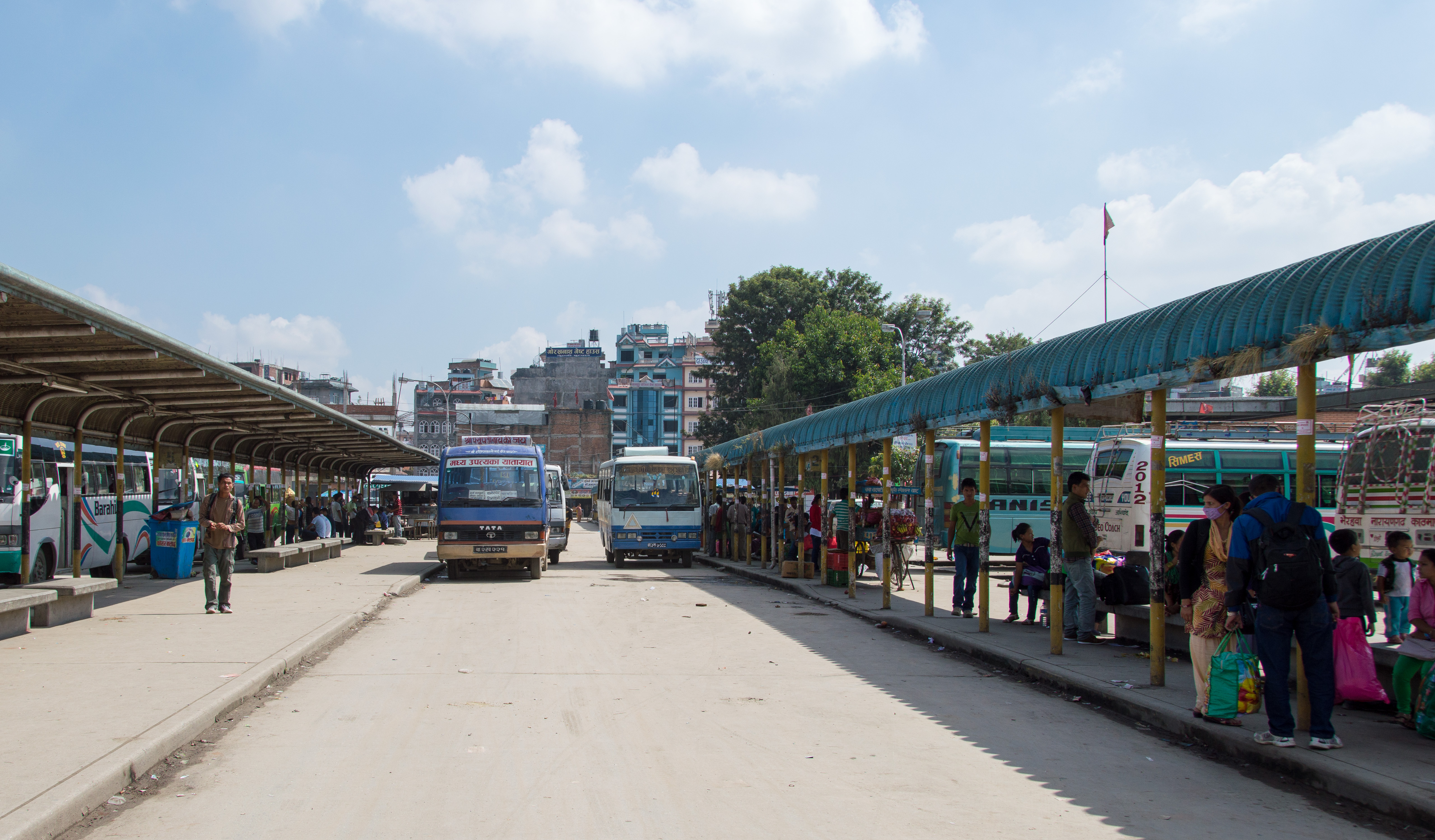 Gongabu Bus Station, platforms / Kathmandu, Nepal